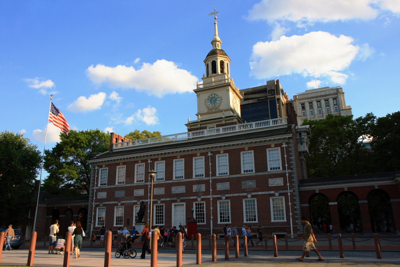 The front of Independence Hall in Philadelphia, Pennsylvania.